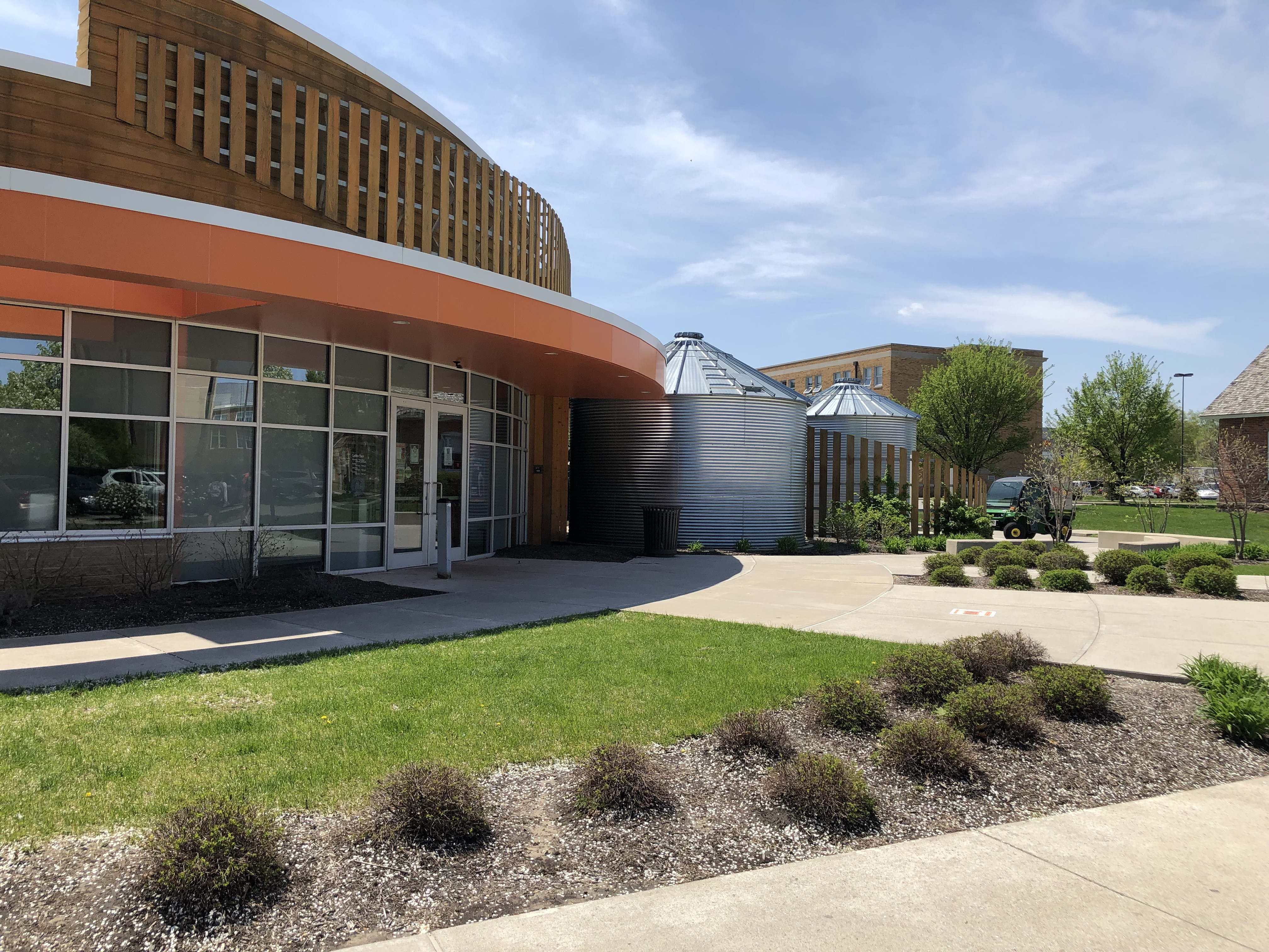 Carillon Place dining hall entrance. The tanks to the right store storm water for irrigation of nearby gardens.